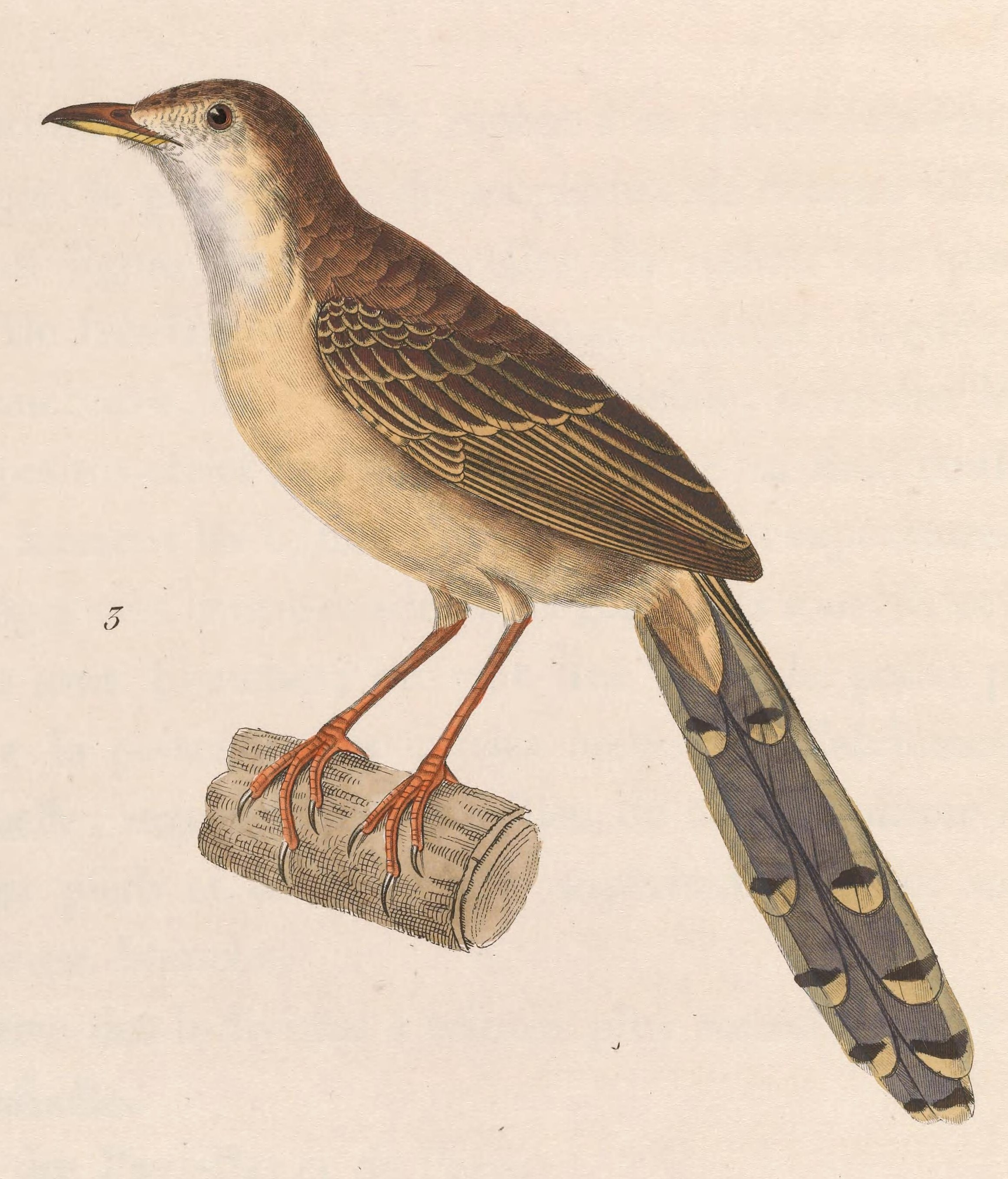 « Malurus polychrous » = Prinia polychroa (Brown Prinia)